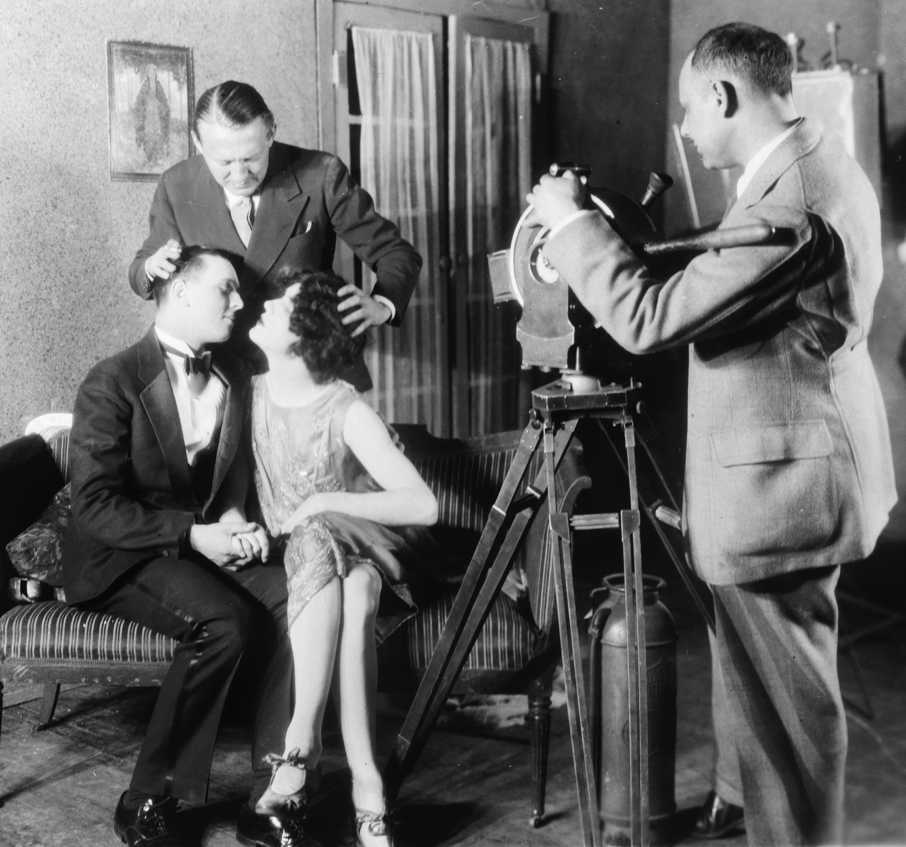 English film director Edmund Goulding (1891-1959) helping William Twiddy and "Bill" Easton kiss while making a film with the motion picture class at Columbia University.